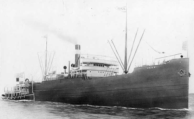 Commercial cargo ship SS Jean at Newport News, Virginia, probably at the time of her completion. She served in the US Navy as USS Jean (ID-1308) from 1918 to 1919.